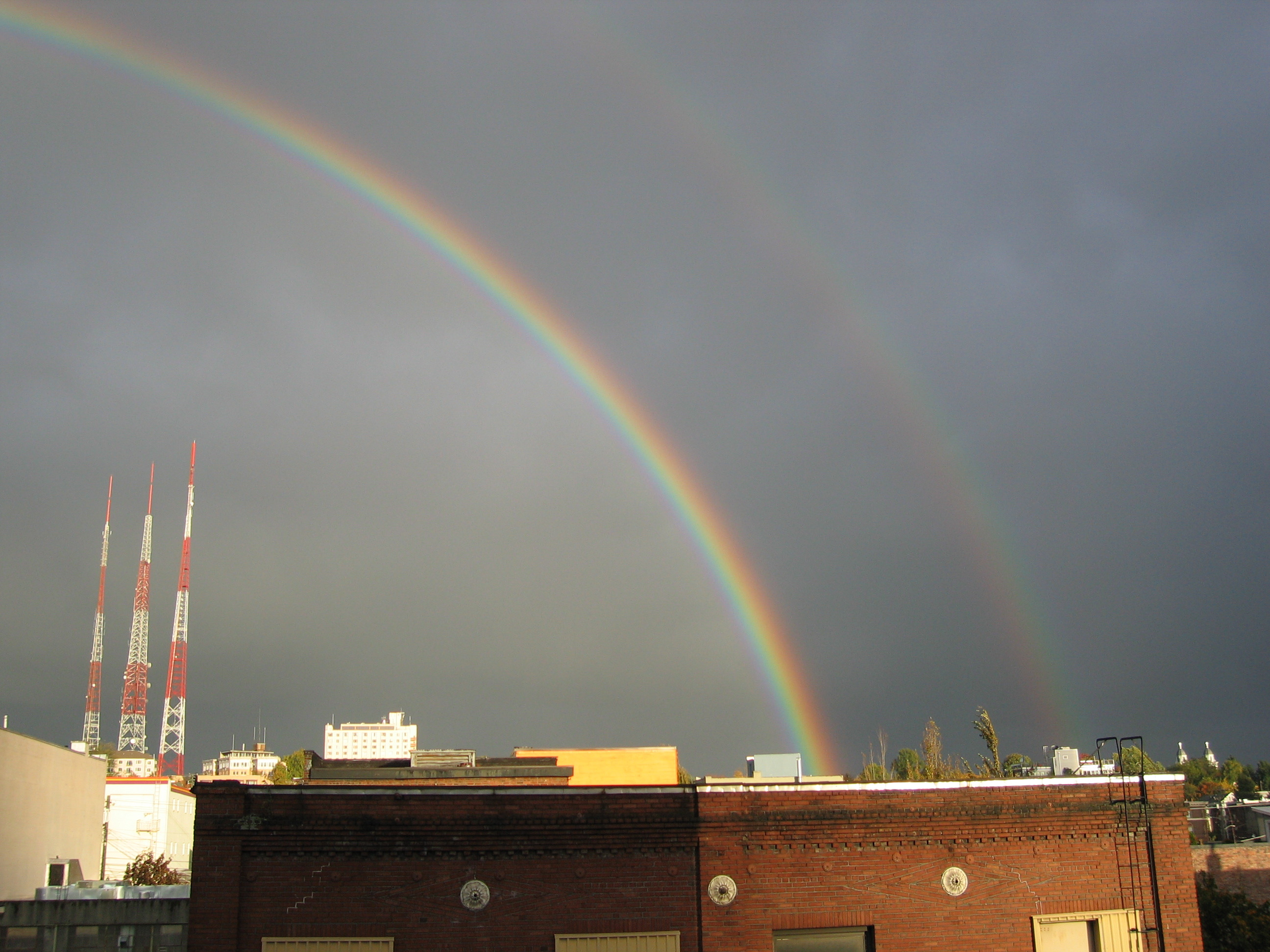 Double Rainbow, Seattle